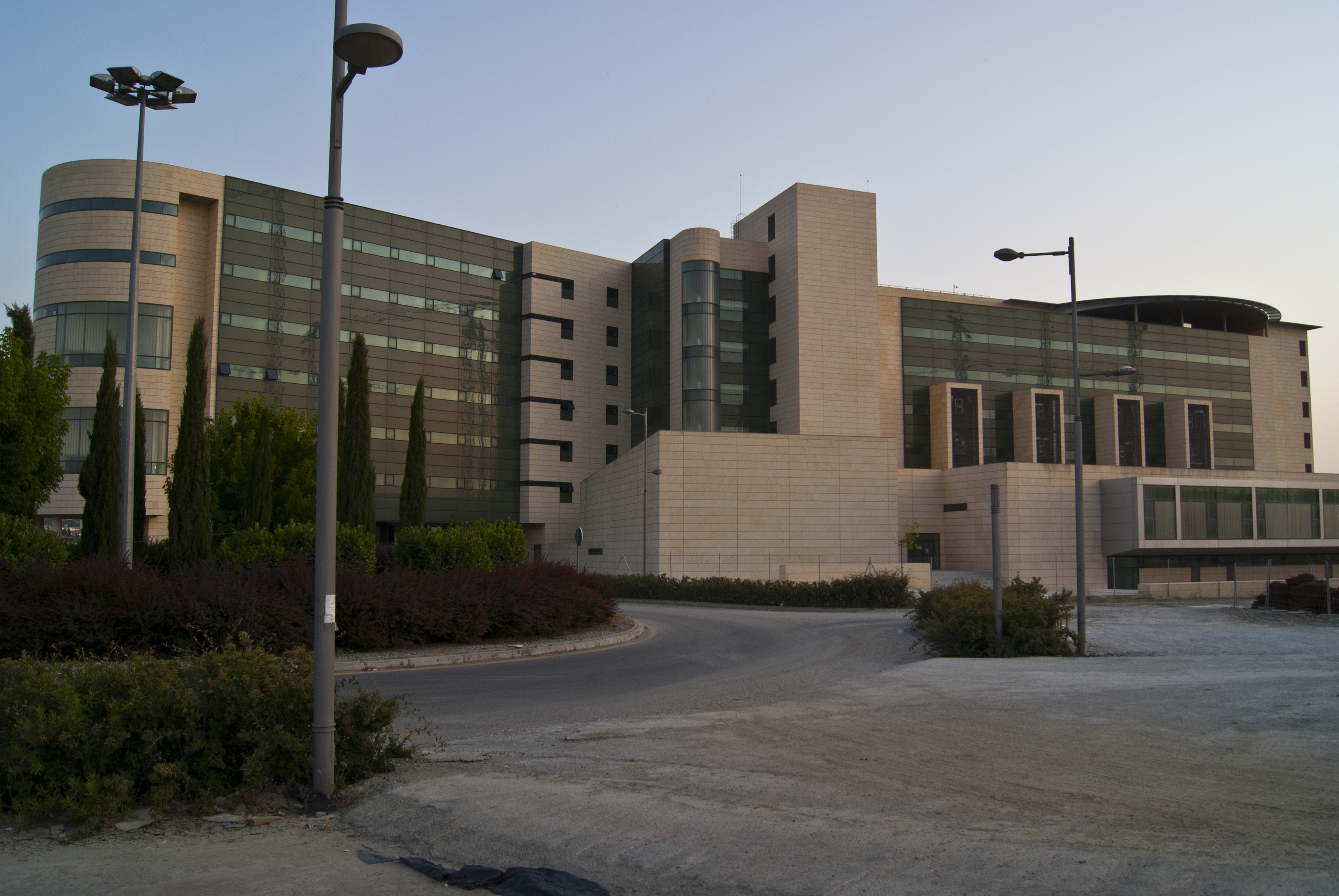 New hospital at Granada (Spain)